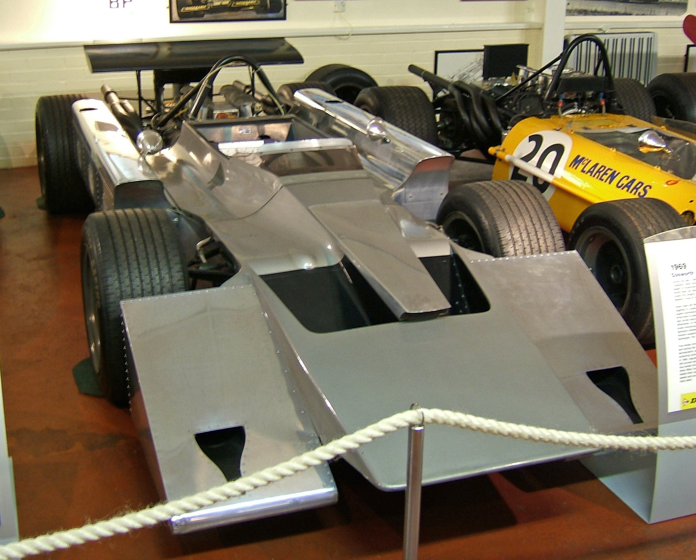 The infamous Cosworth four-wheel drive Formula One car. In the Donington Collection museum, Leicestershire, UK.